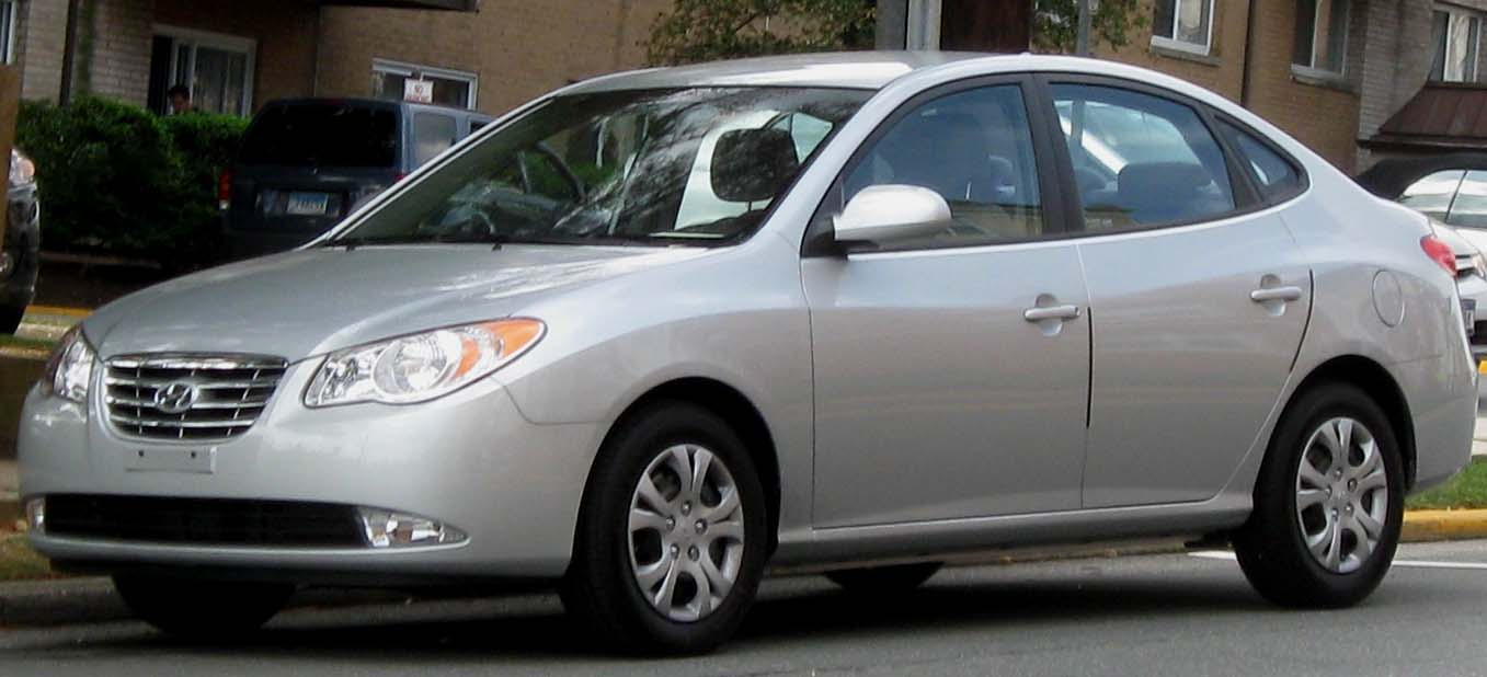 2010 Hyundai Elantra photographed in College Park, Maryland, USA.